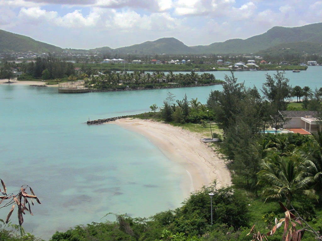 Entrance to Jolly Harbour, Antigua island, Caribbean.